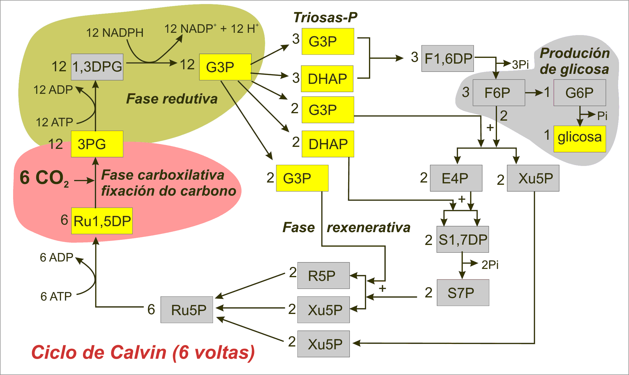 calvin cycle diagram new version